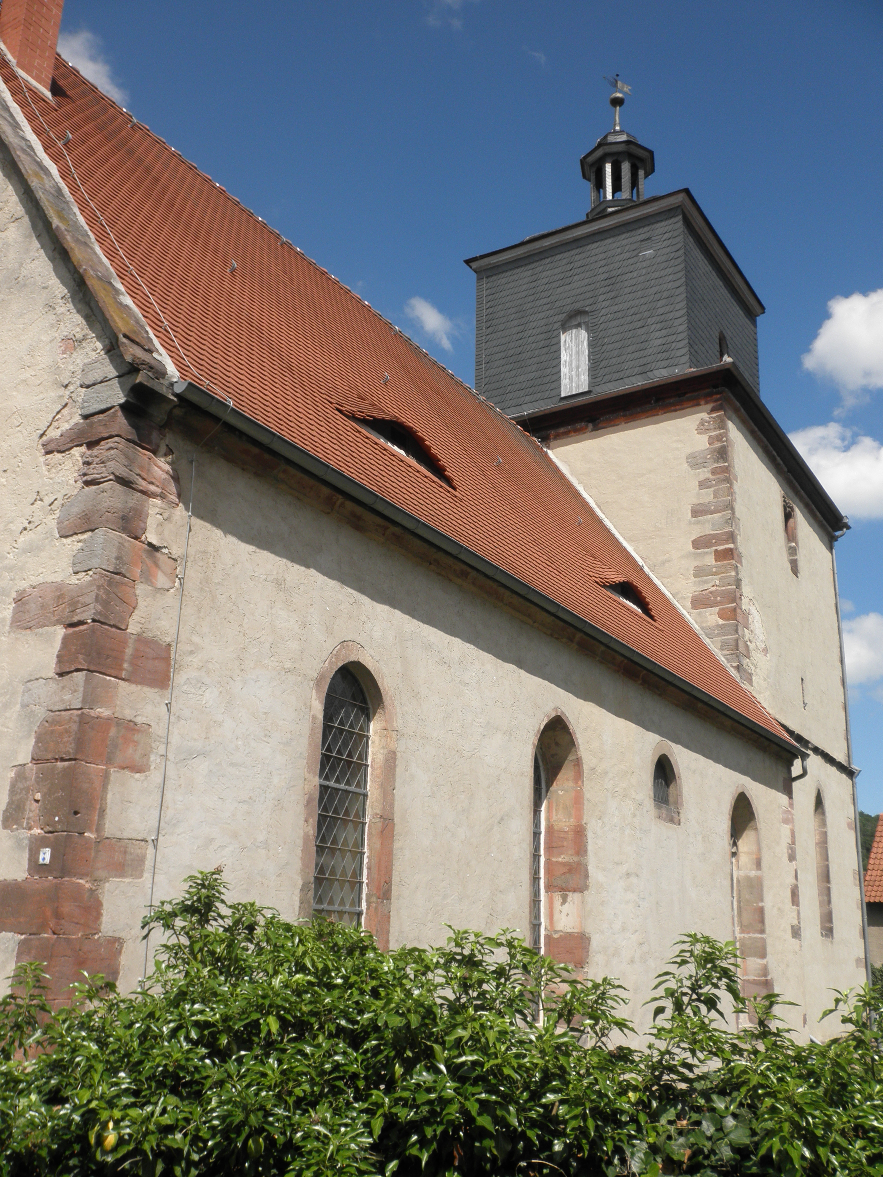 Church in Altendorf (Altenberga) in Thuringia